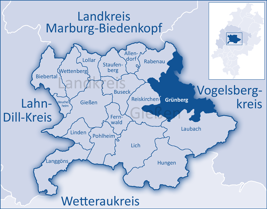 The map shows a district in the area of Gießen (district)